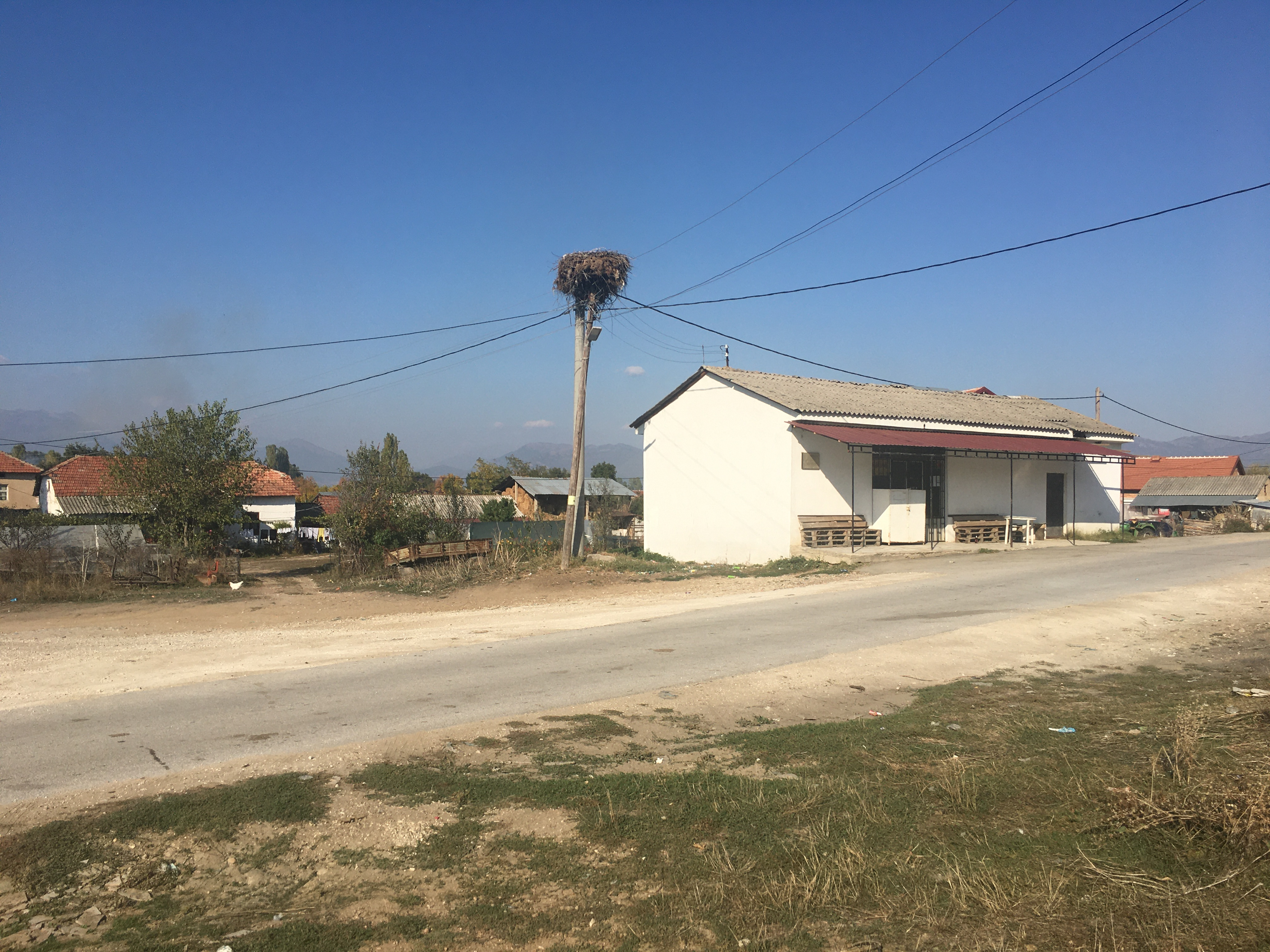 The road through the village of Belo Pole